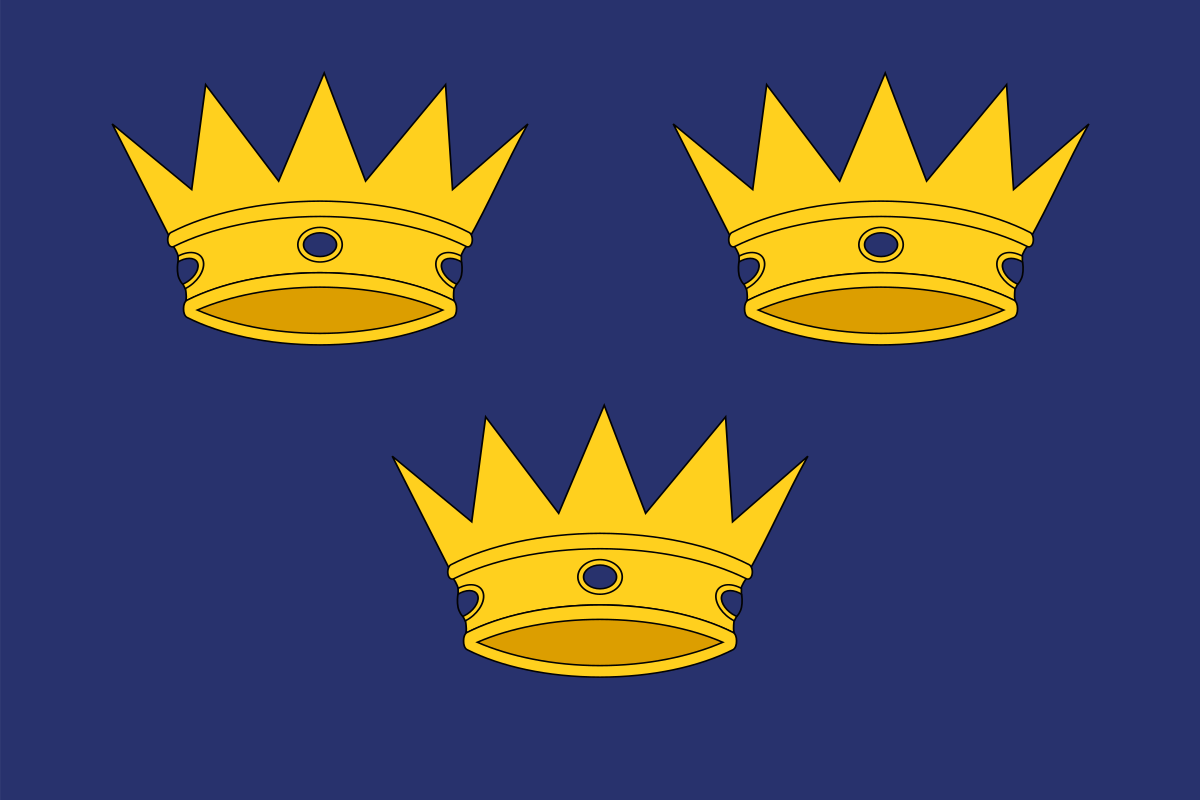 Flag of Munster